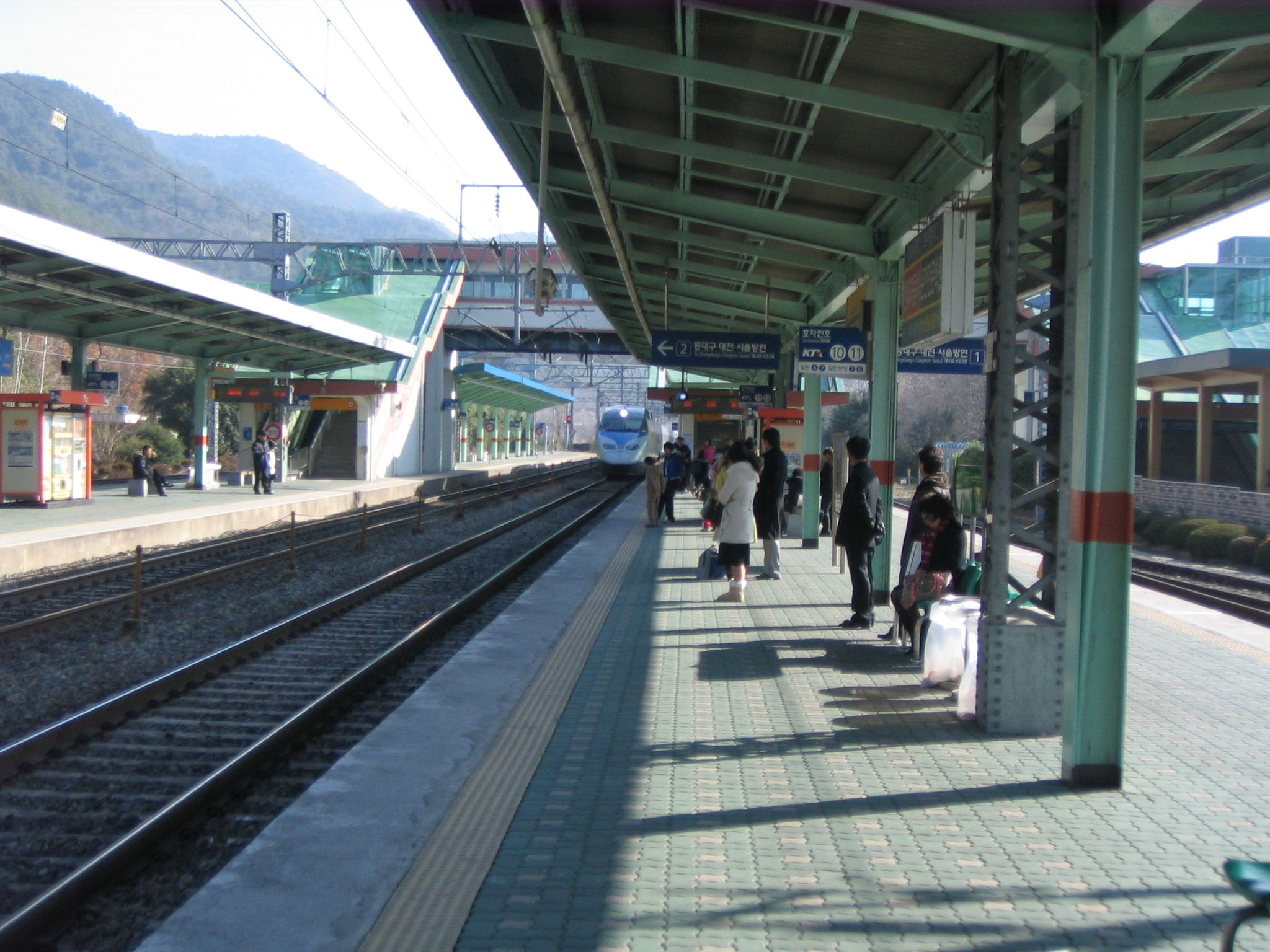 KTX train approaching the platform at Miryang Station.